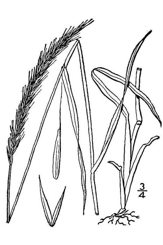 Elymus caninus